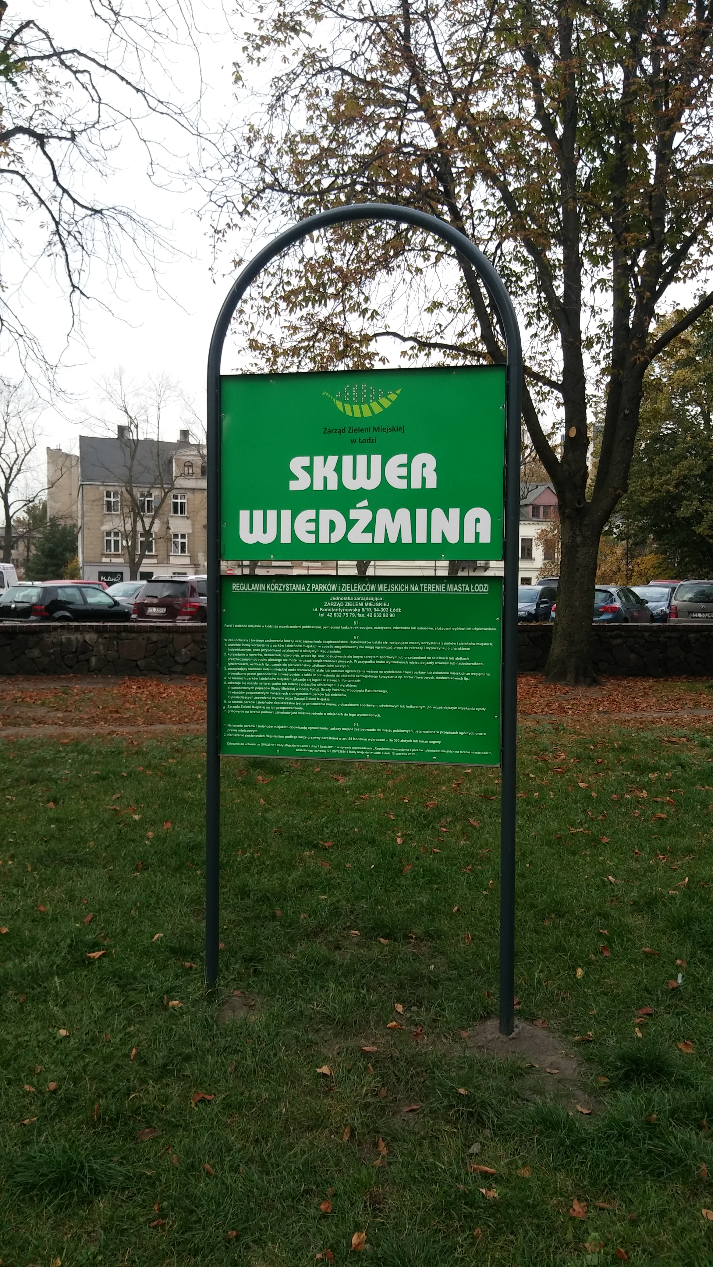 Witcher Square in Łódź